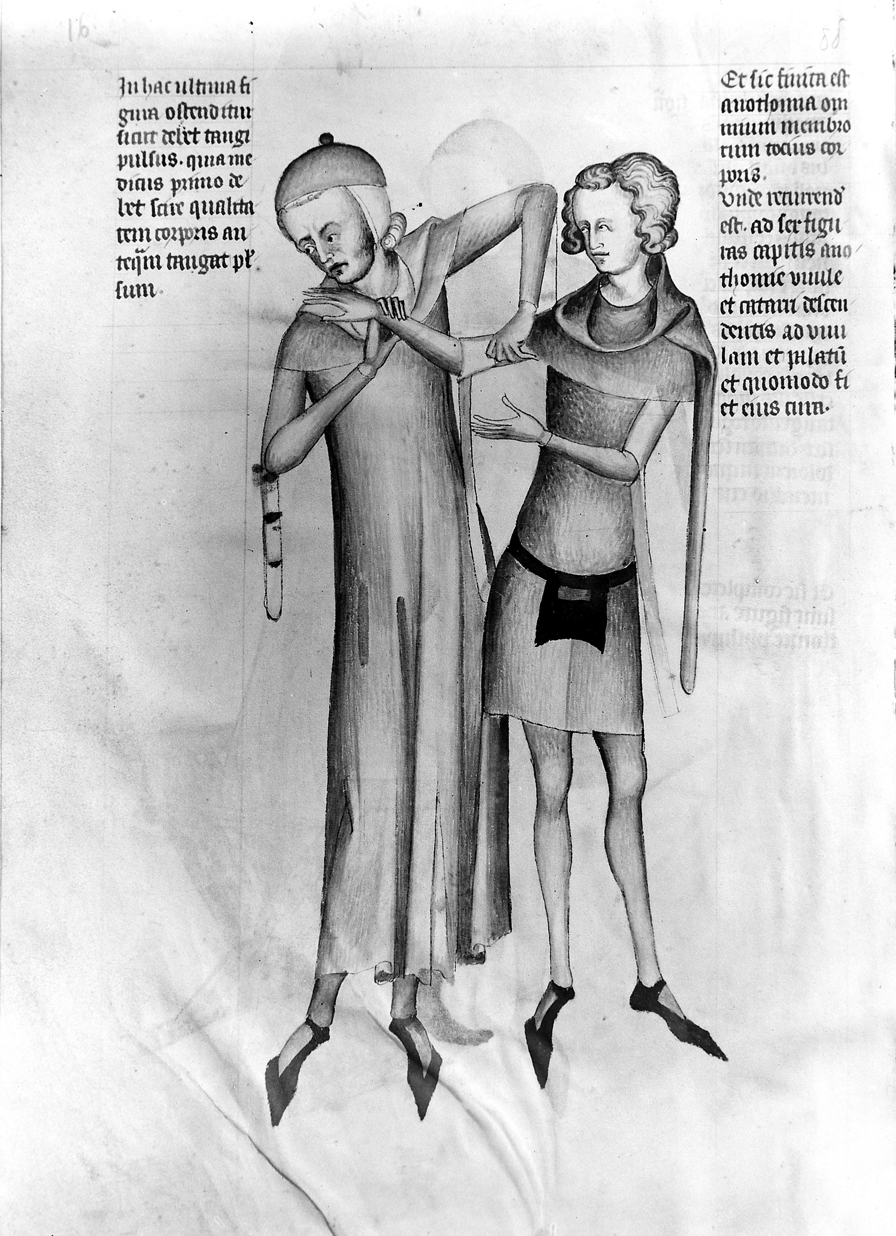 Miniature anatomical figure, figure 18 Rare Books Keywords: Anatomy; Guido de Vigevano